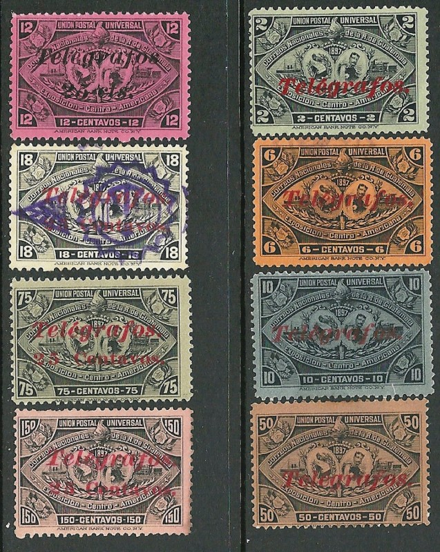 1898 telegraph stamps of Guatemala.